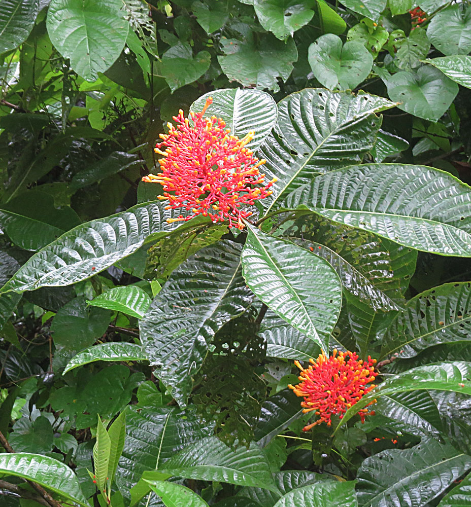 This species ranges from southern Mexico to Peru, and is often found in tropical gardens, in this case at the Gamboa Rainforest Lodge, Panama.